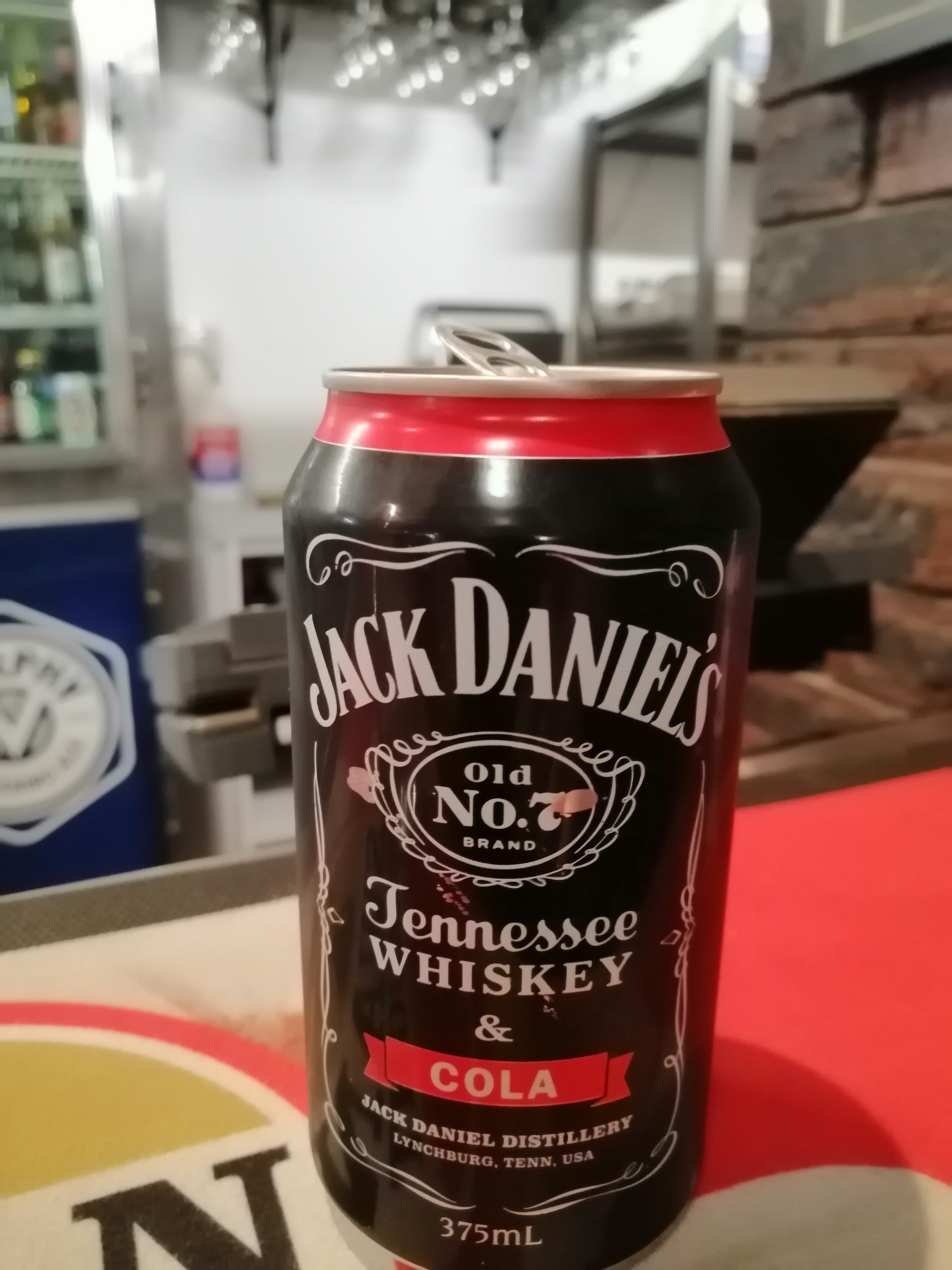 Jack Daniels Cola 375mL can